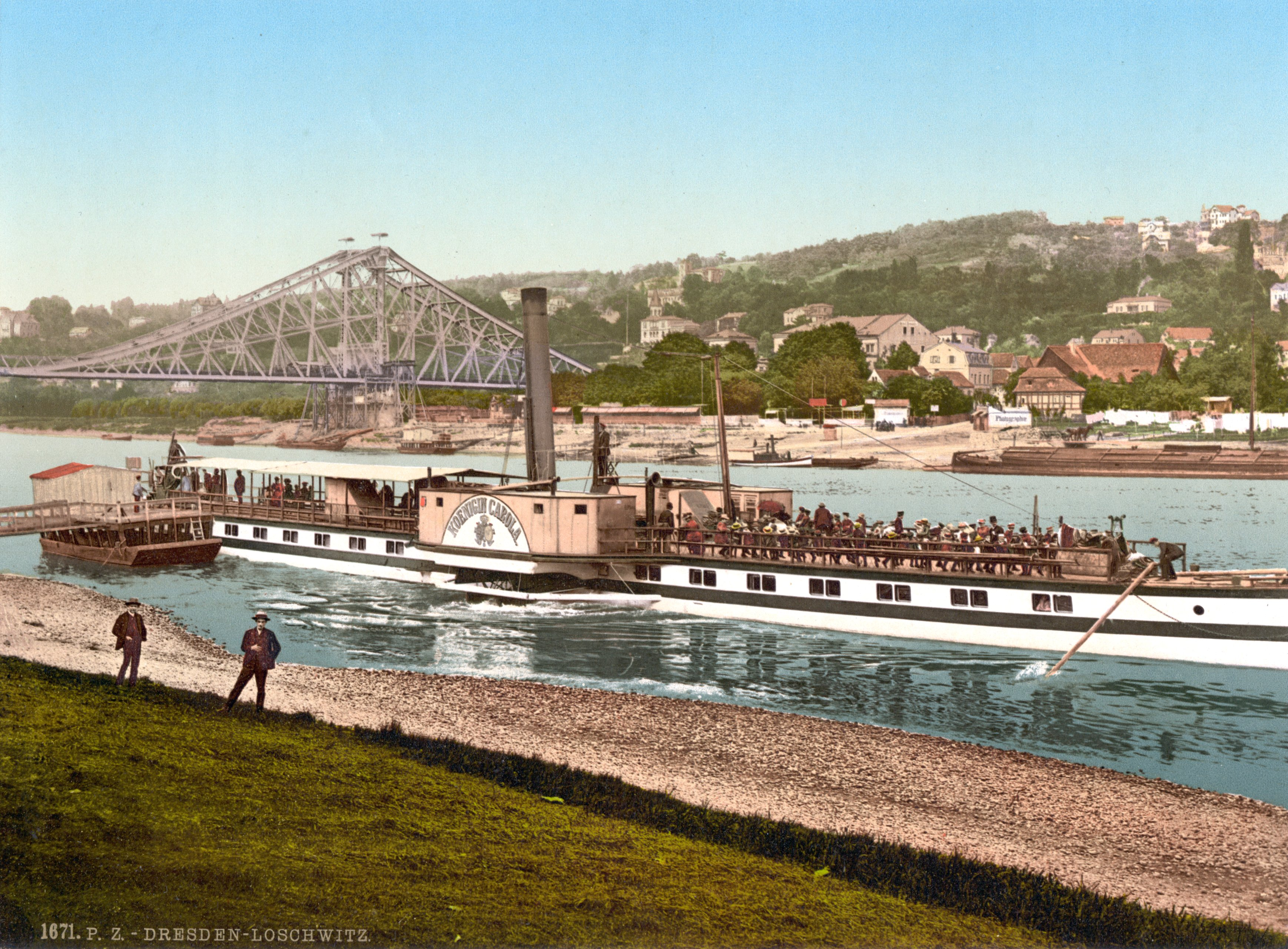 Loschwitz near Dresden (Saxony, Germany) – Loschwitz bridge (Blue Wonder) with paddle steamer "Queen Carola" (today "PD Pillnitz")